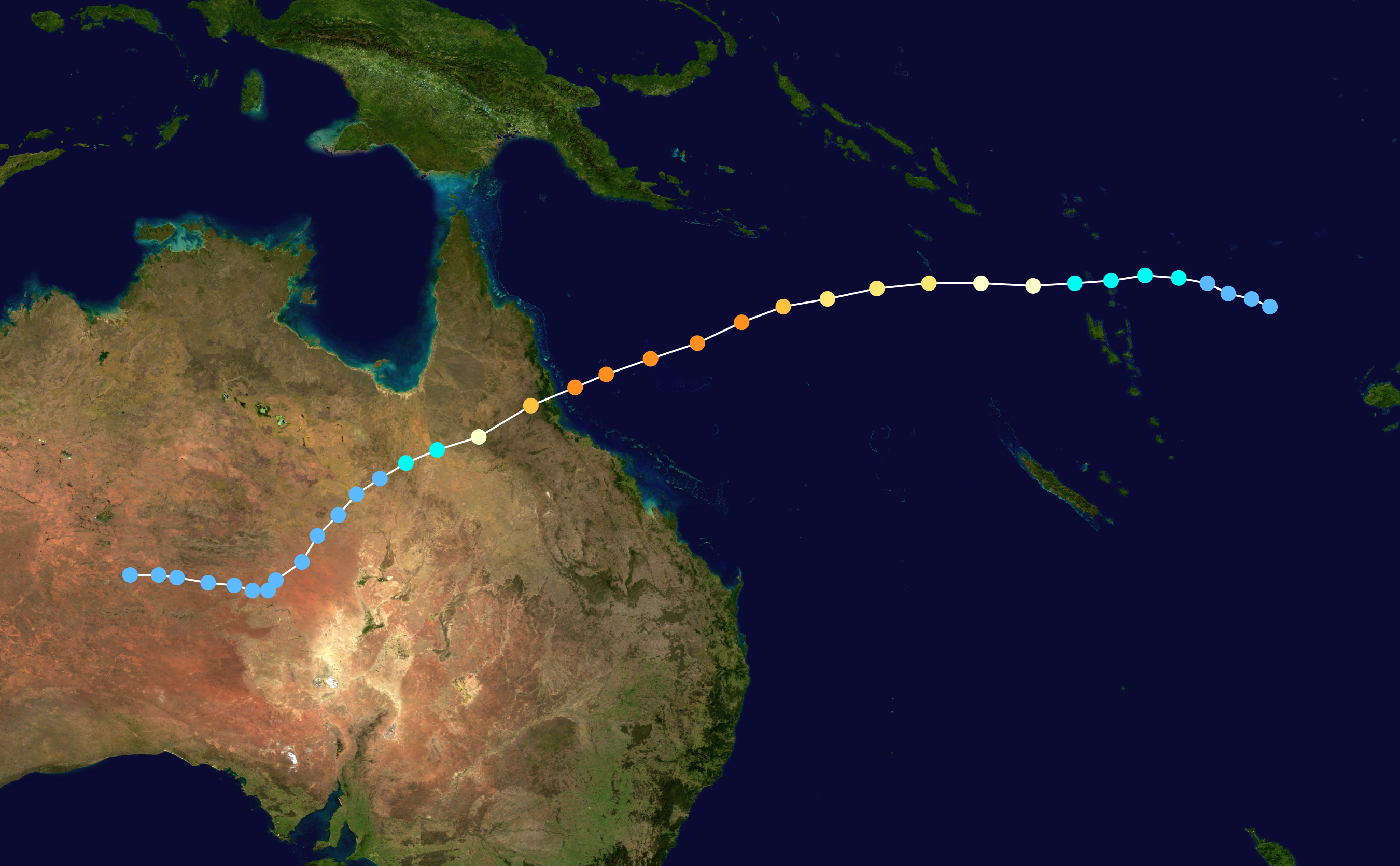 Track map of Severe Tropical Cyclone Yasi of the 2010-11 Australian region cyclone season and the 2010-11 South Pacific cyclone season. The points show the location of the storm at 6-hour intervals. The colour represents the storm's maximum sustained wind speeds as classified in the Saffir–Simpson scale (see below), and the shape of the data points represent the nature of the storm, according to the legend below. Saffir–Simpson scale Tropical depression≤38 mph≤62 km/h Category 3111–129 mph178–208 km/h Tropical storm39–73 mph63–118 km/h Category 4130–156 mph209–251 km/h Category 174–95 mph119–153 km/h Category 5≥157 mph≥252 km/h Category 296–110 mph154–177 km/h Unknown Storm type Tropical cyclone Subtropical cyclone Extratropical cyclone / Remnant low / Tropical disturbance / Monsoon depression